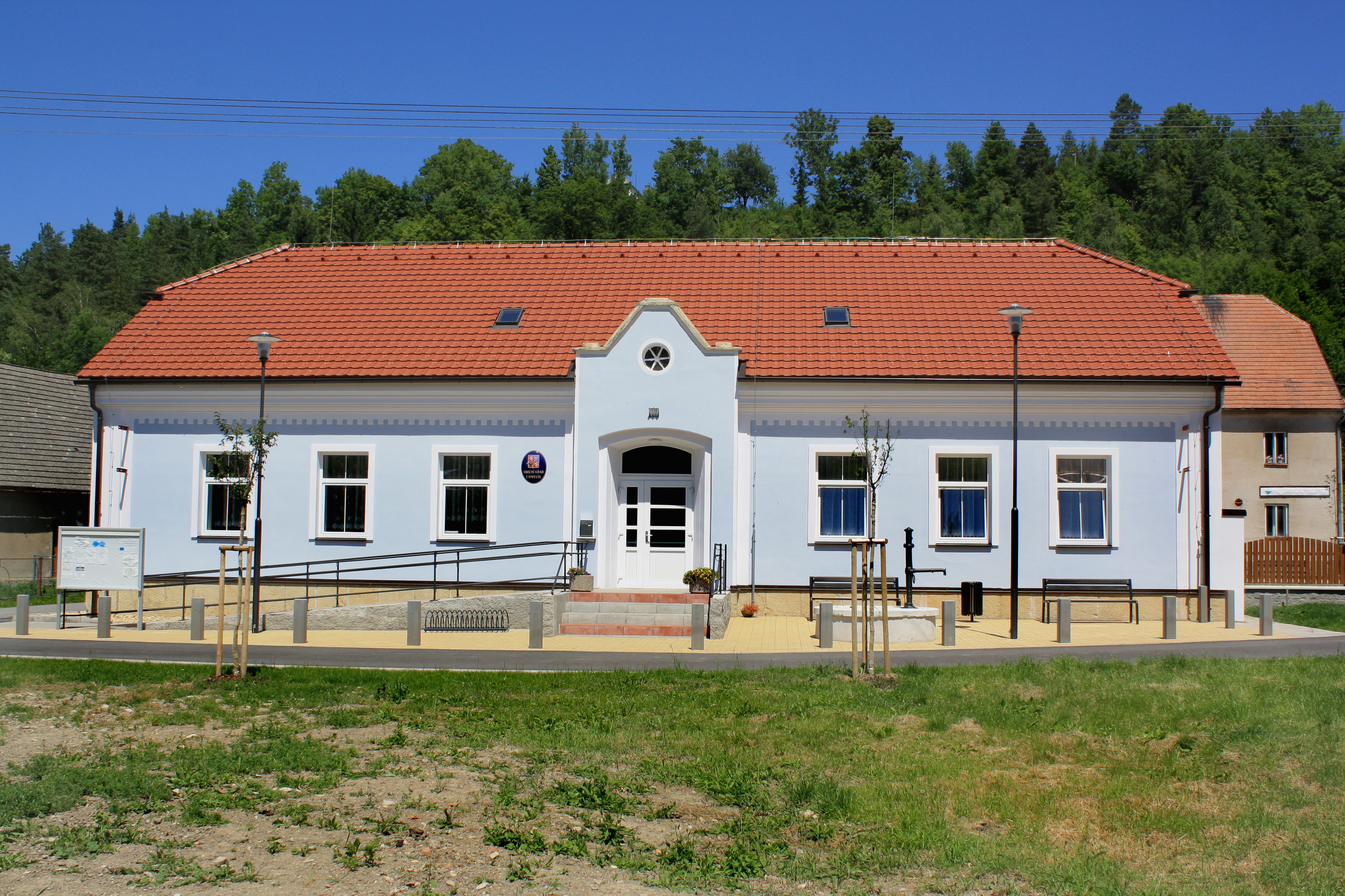 Municipal office in Chmelík village, Czech Republic